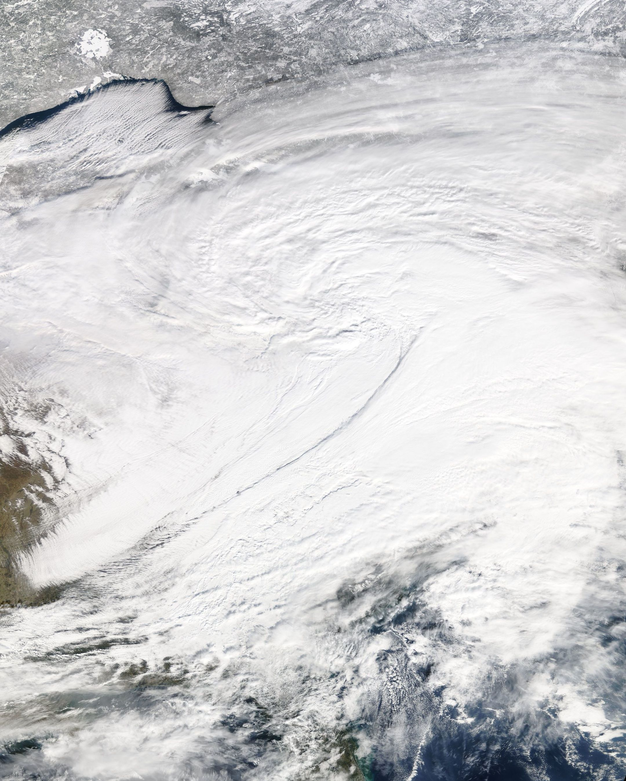 Satellite image of a powerful blizzard over New England on January 22, 2005.